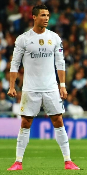 Cristiano Ronaldo